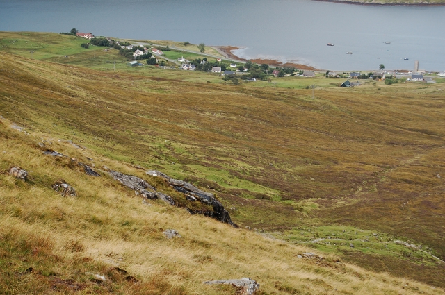 Northern slopes of An Coileach